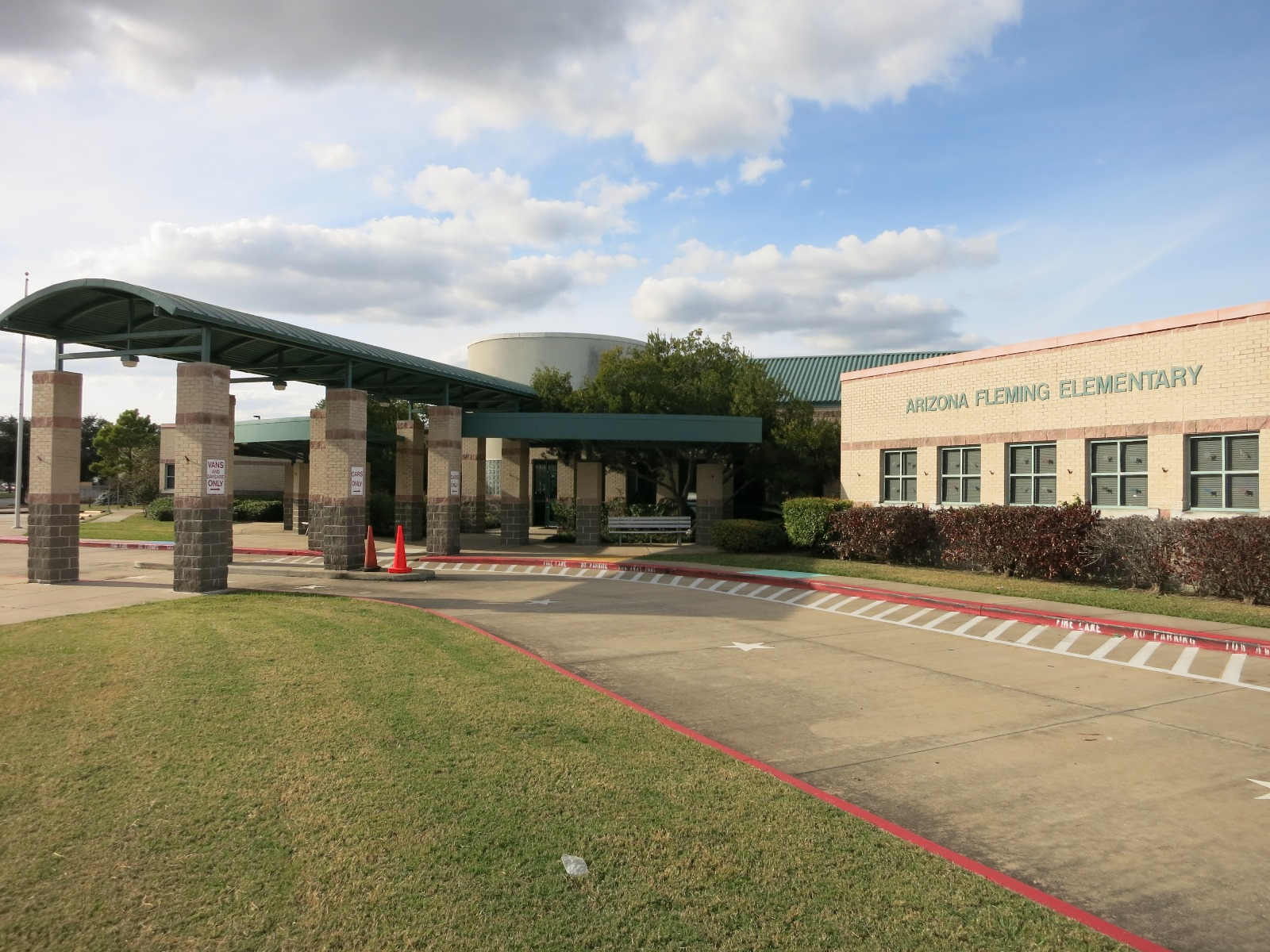 Photo shows Arizona Fleming Elementary School in the Fort Bend Independent School District in Fort Bend County, Texas. The address is 14850 Bissonnet, Houston, Texas. View is to the northwest.